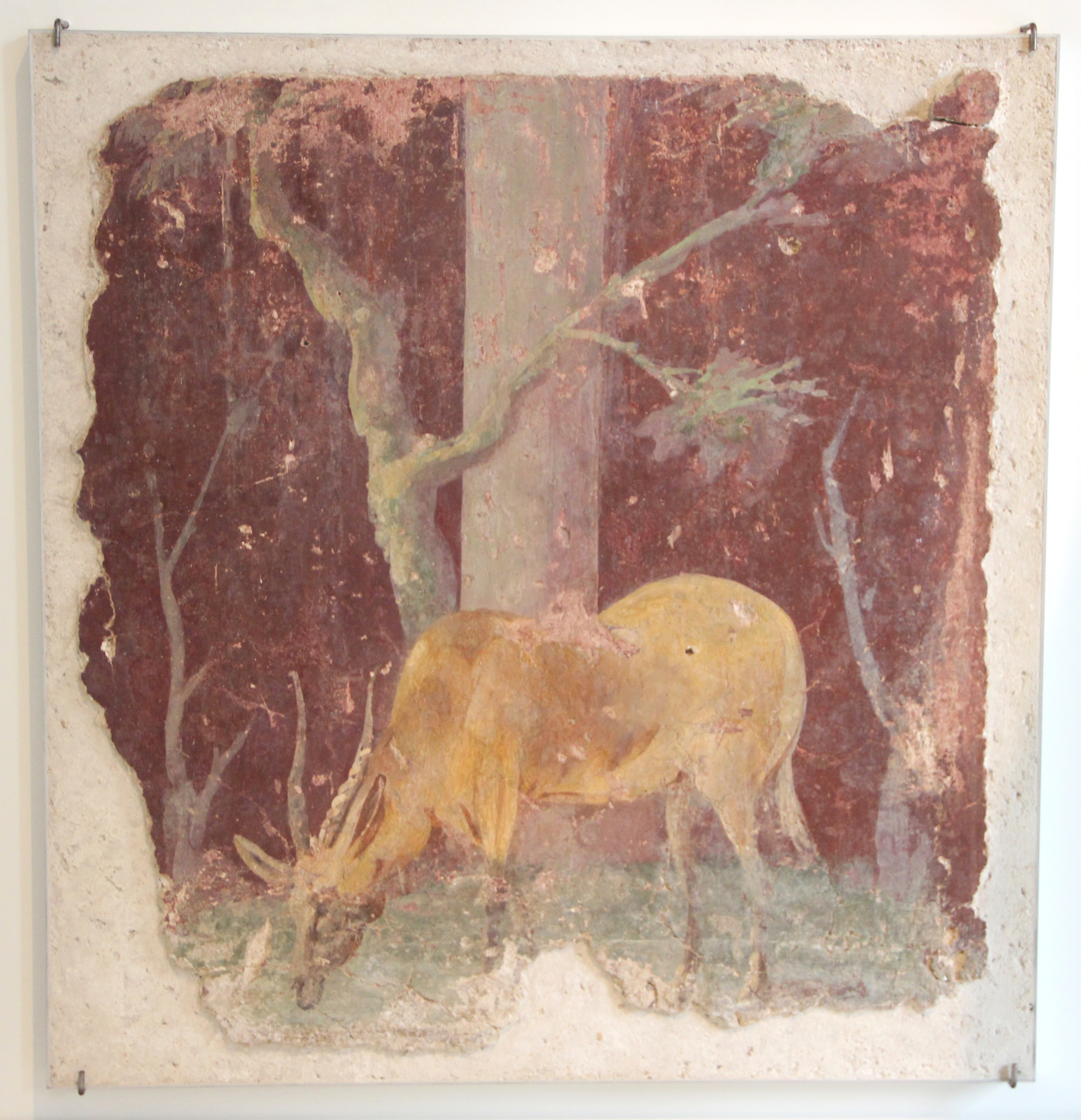 Fragment of a mural representing a gazelle drinking. Found in the library of Asinius Pollio, built in 38 BC. Geneva. Museum d'art et d'histoire.